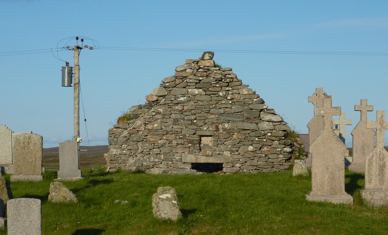 Nunton Church, Benbecula, Outer Hebrides, Scotland - from the west